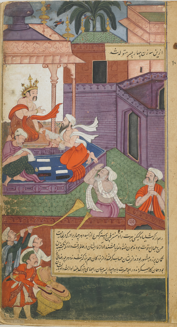 Folio from the Ramayana of Valmiki (The Freer Ramayana), Vol. 1, folio 29; recto: Dasaratha's court celebrates the announcement of the birth and the naming of the four princes; verso: text